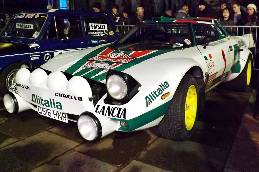 Lancia Stratos The Rallye Monte Carlo Historique XVII started from Paisley Abbey on 23rd January 2014, the only UK starting point for this event